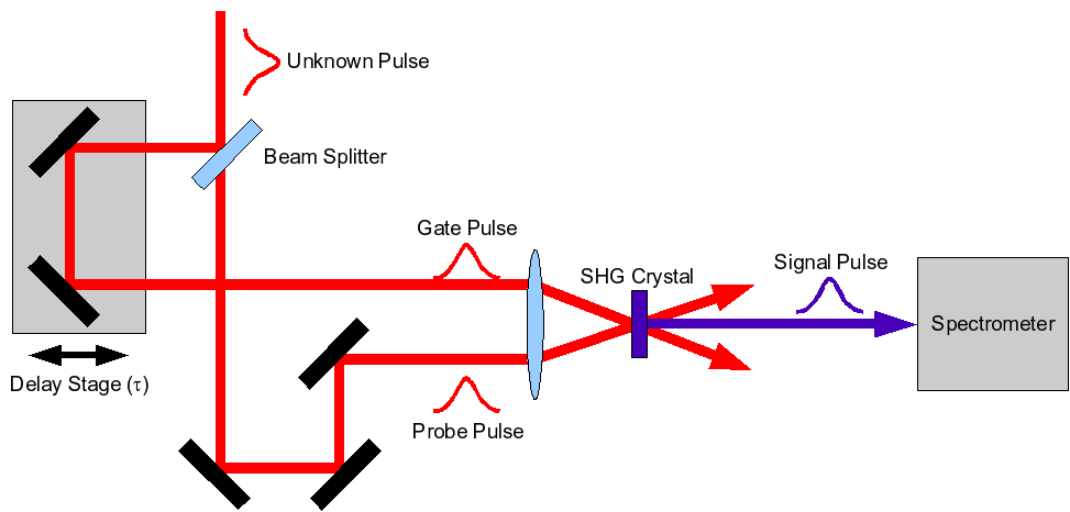 An example SHG FROG setup. Author: Erik Zeek